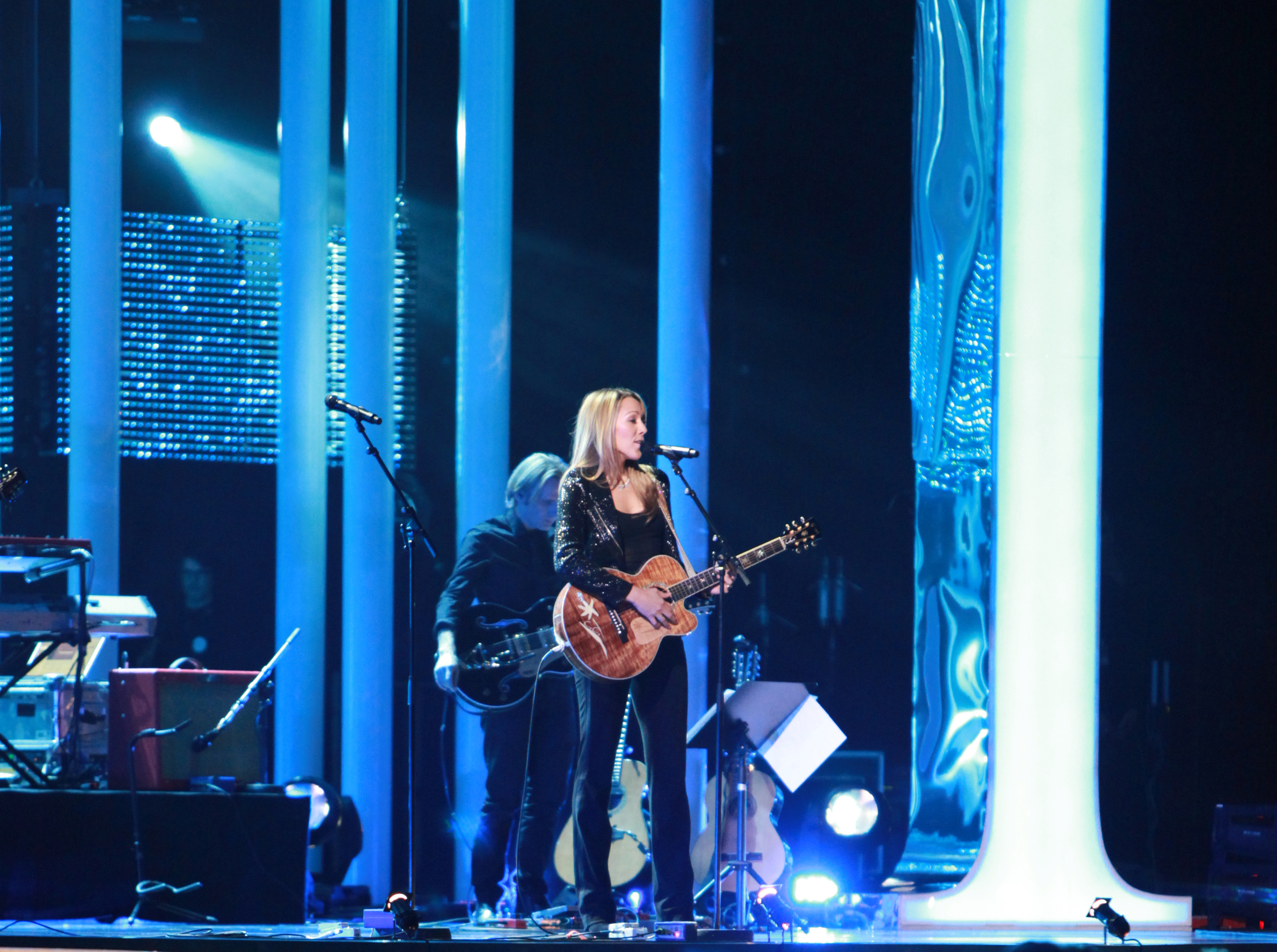 Colbie Caillat at The Nobel Peace Price Concert 2010